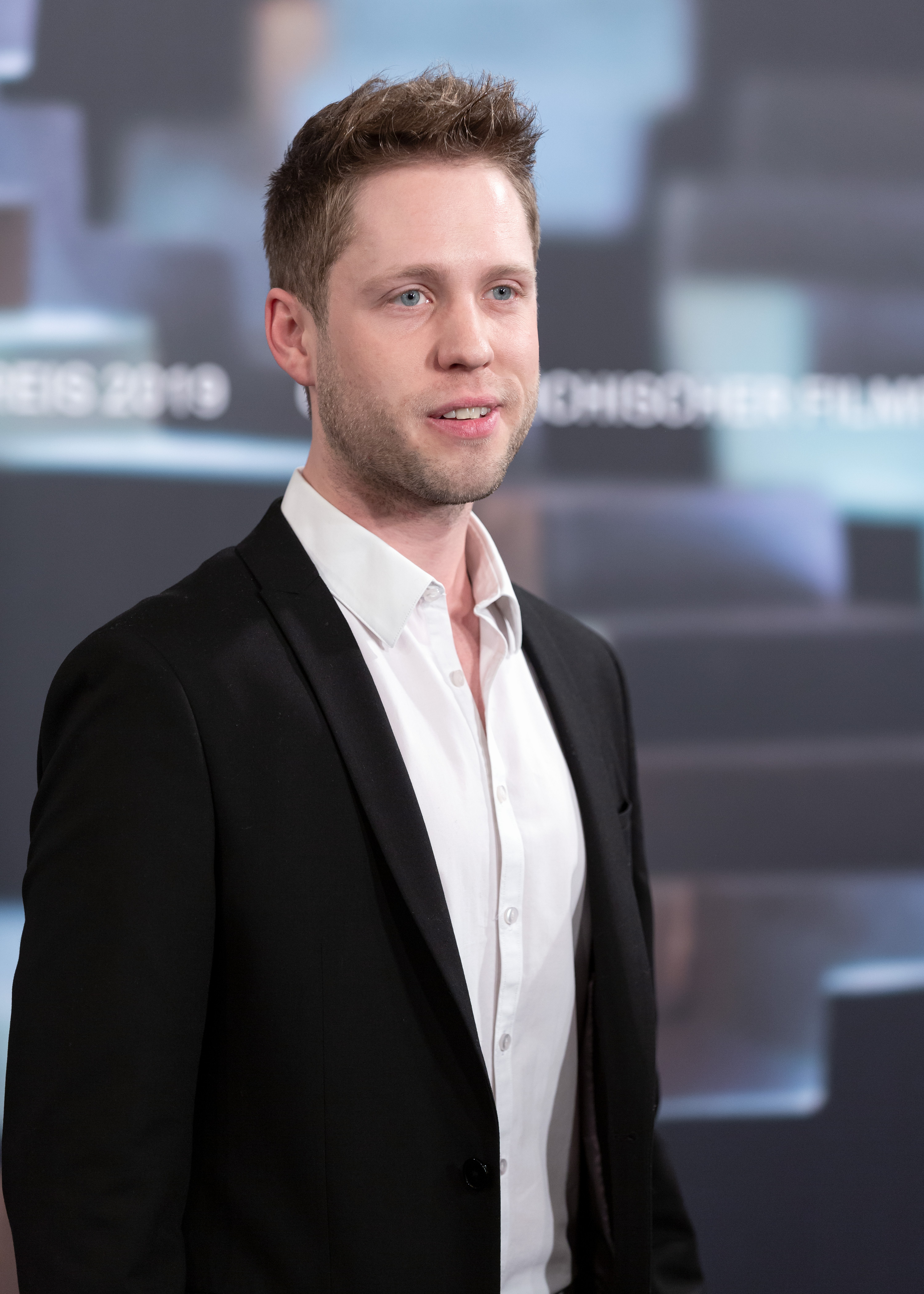 Markus Freistätter, photo call at the Austrian Film Awards 2019 (Rathaus, Vienna,Austria).